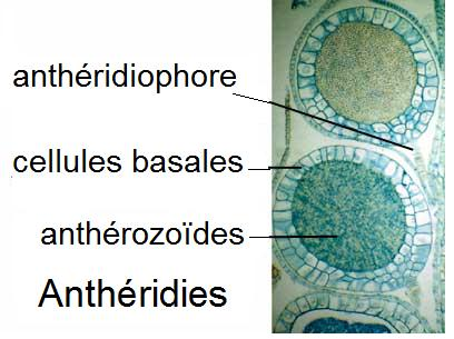 Antheridia of Porella, a leafy liverwort.